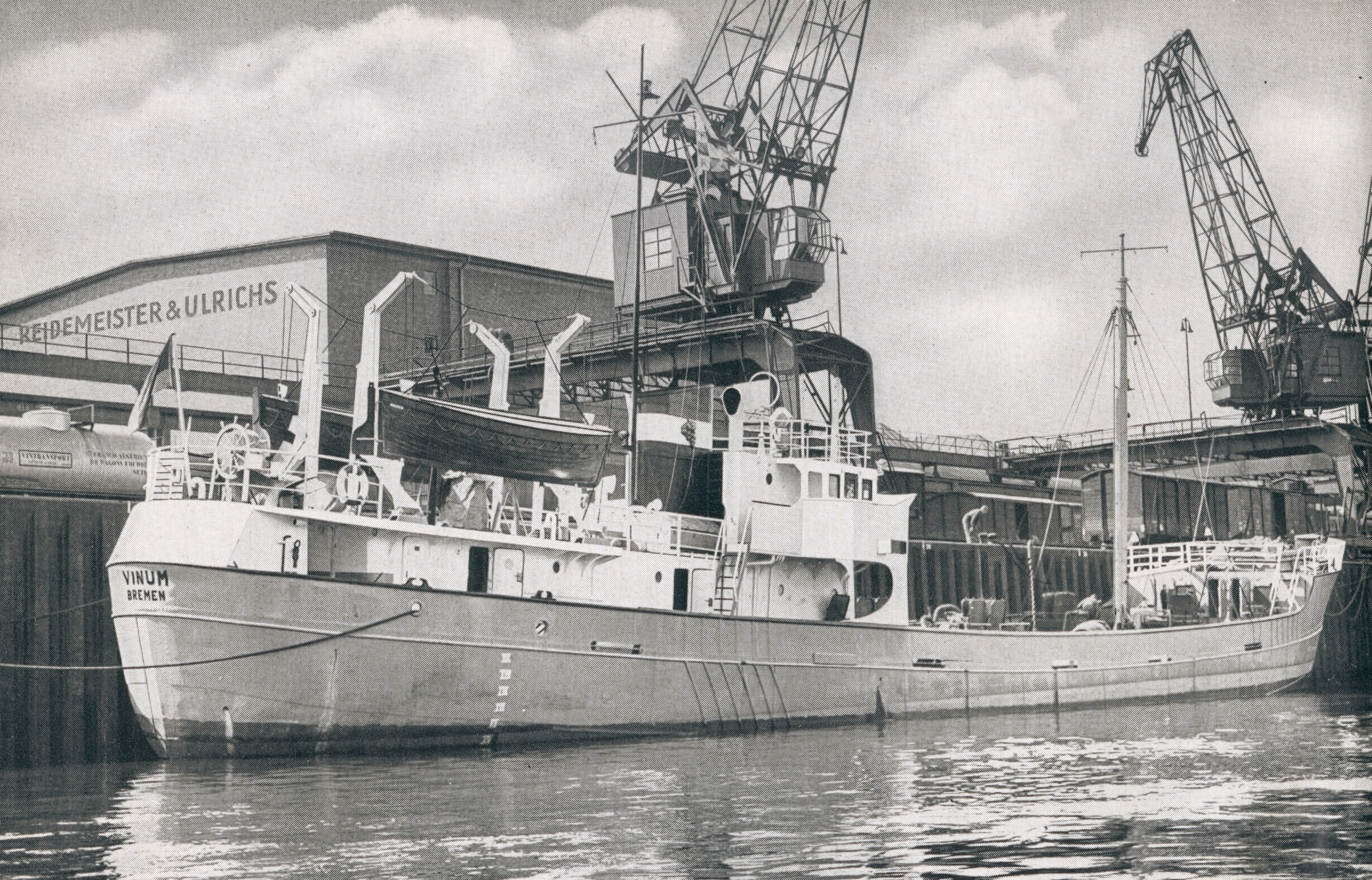 Reidemeister & Ulrichs Wine Merchants Tank Ship Vinum